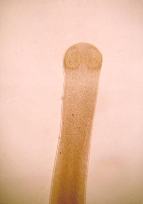 Hymenolepis diminuta scolex.